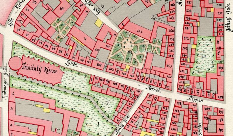 The Street Landemærket seen on a detail from Gedde's district maps of Copenhagen, Denmark